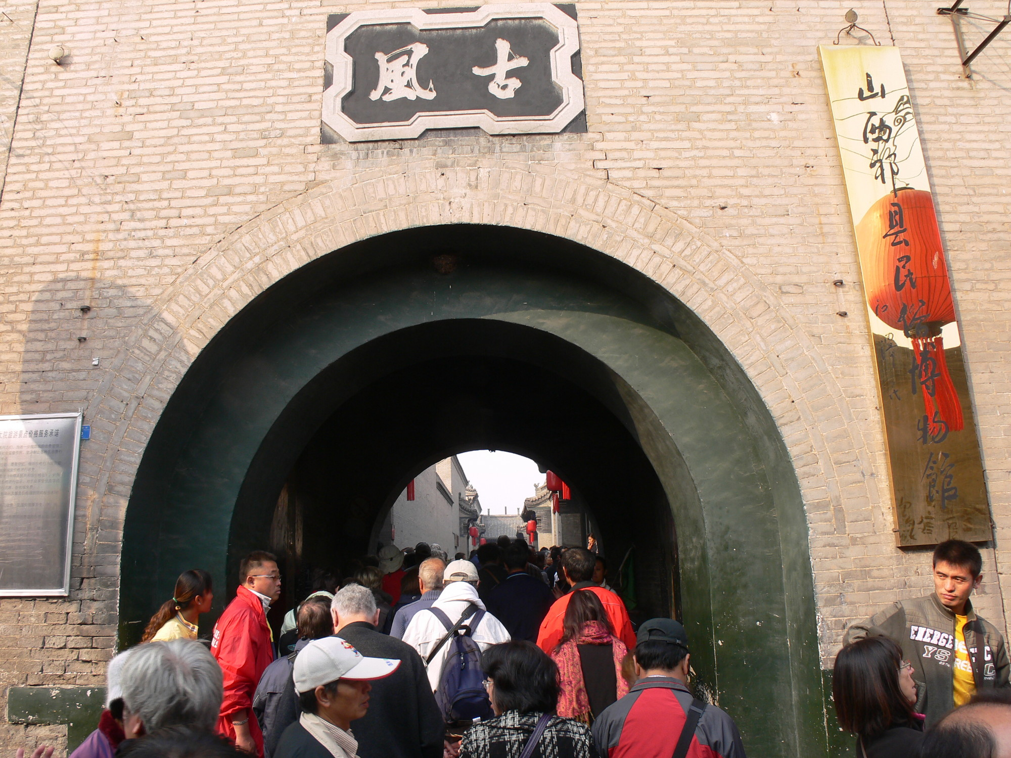 Qiao Family Compound in Shanxi province